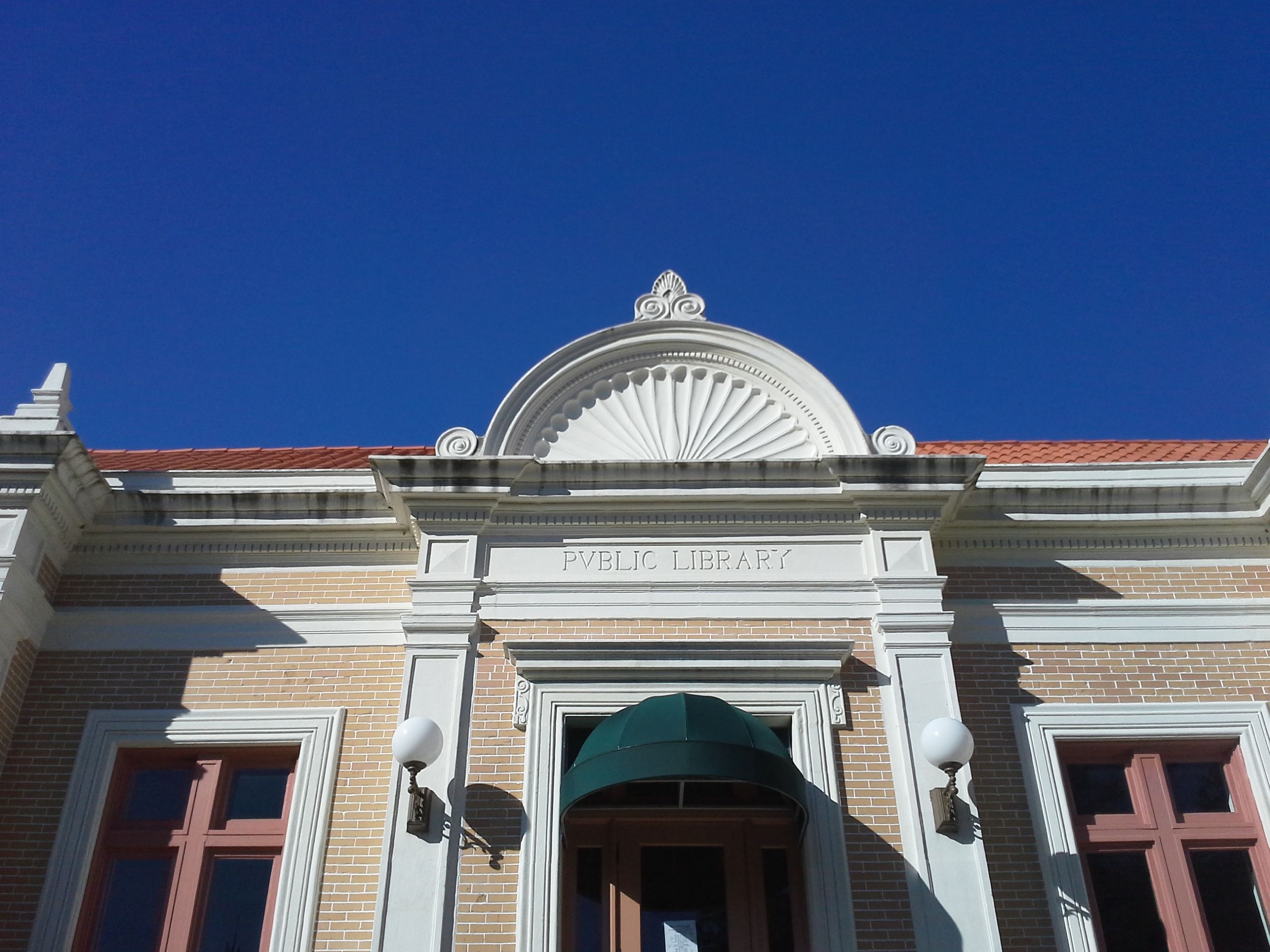 Detail of Decoration Above East Entrance of Mirror Lake Library, with distinctive "PVBLIC LIBRARY" text visible.